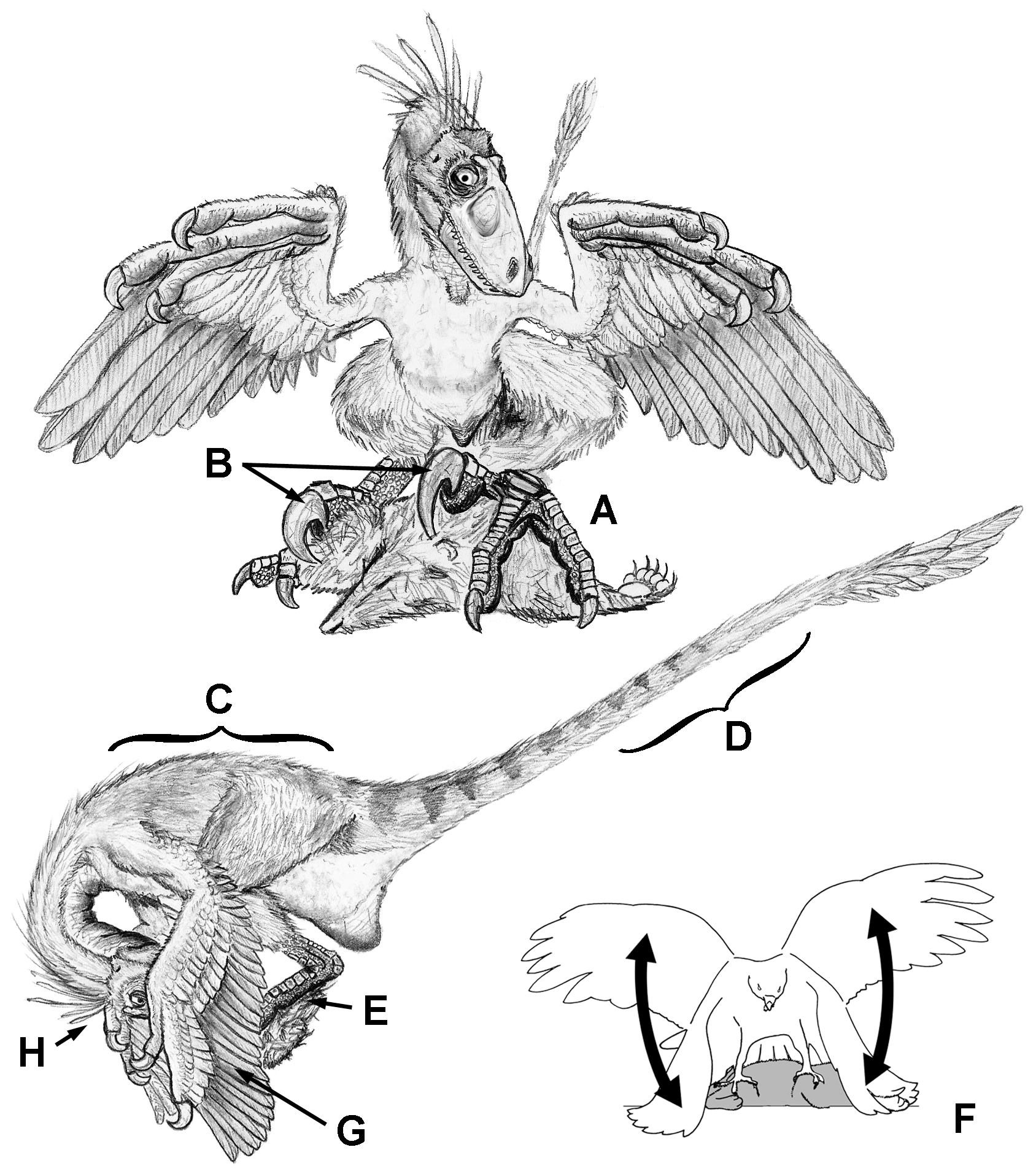 RPR ‘‘ripper’’ behavioural model, illustrated by a small dromaeosaurid. (A) grasping foot holds on to prey. (B) hypertrophied D-II claw used as anchor to maintain grip on large prey. (C) predator’s bodyweight pins down victim. (D) beam-like tail aids balance. (E) low-carried metatarsus helps restrain victim. (F) ‘‘stability flapping’’ used to maintain position on top of prey. (G) arms encircle prey (‘‘mantling’’), restricting escape route. (H) head reaches down between feet, tearing off strips of flesh (may explain unusual deinonychosaurian dental morphology). Victim is eaten alive or dies of organ failure.